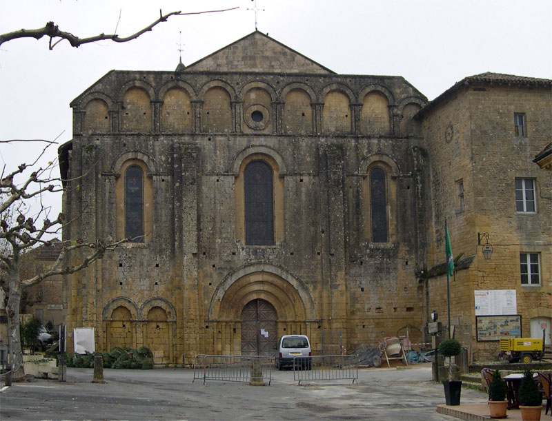 Cadouin Abbey. France